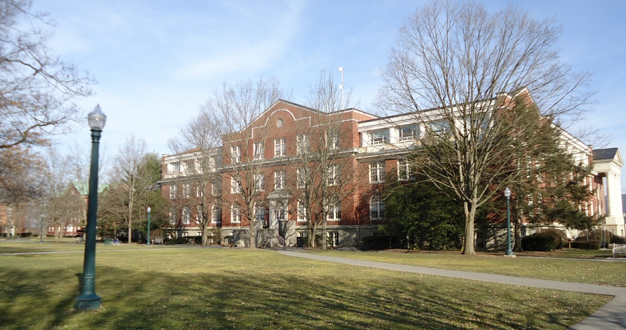 Dana Engineering Building, Bucknell University (enlarged in 1985)